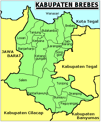 Brebes county, Central Java, Indonesia